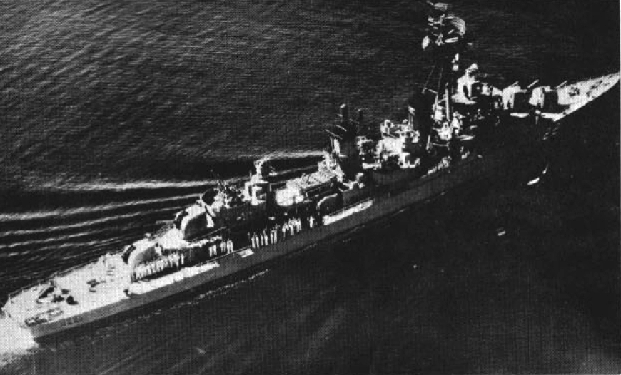 The Argentine destroyer ARA Rosales (D-22) underway during exercise UNITAS III, in 1962. Rosales had been commissioned in the United States Navy as USS Stembel (DD-644) from 1943 to 1958. Stembel was loaned to Argentina on 7 August 1961 under the Military Assistance Program and served until 1982 when she was stricken and broken up for scrap.